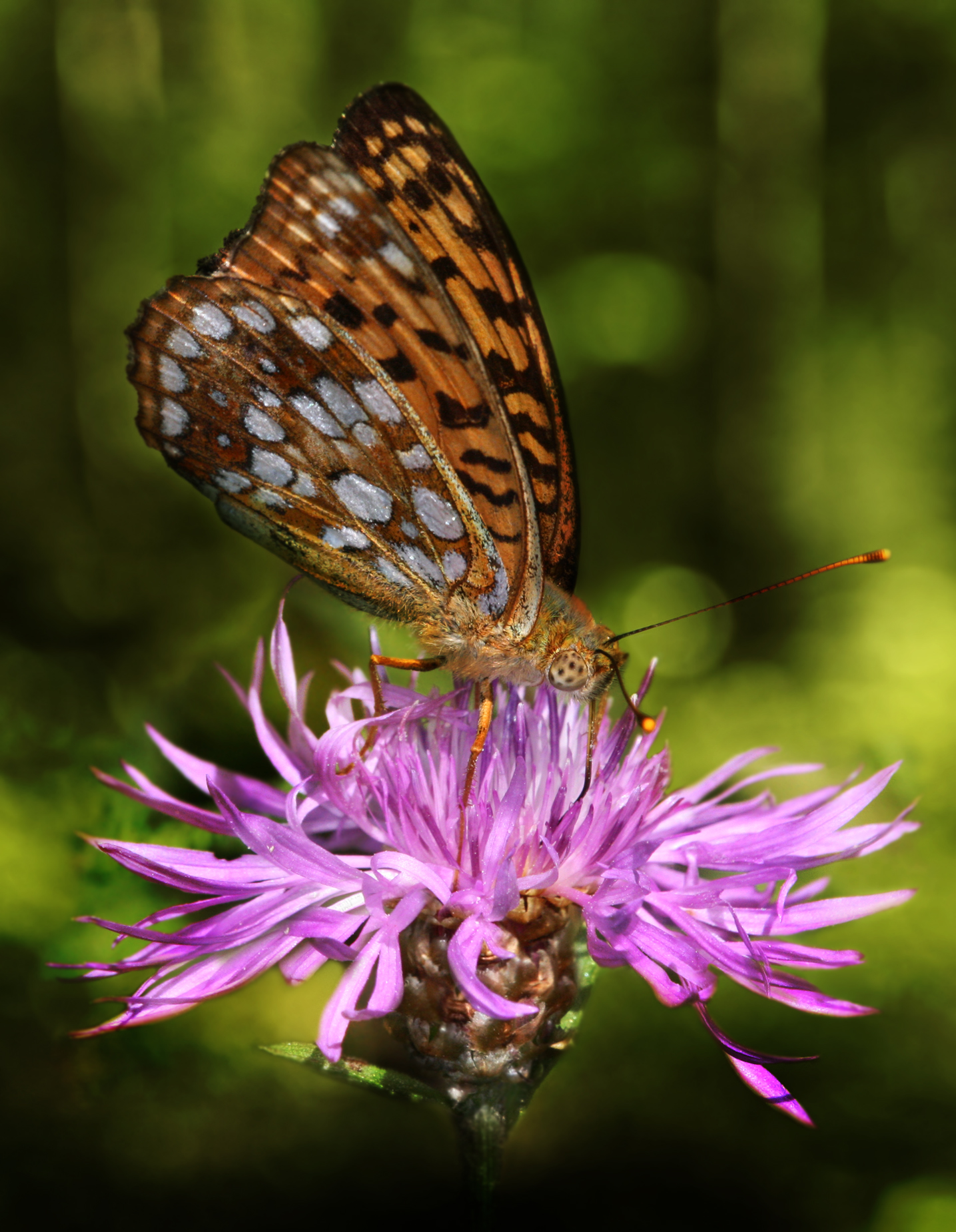 Argynnina is a subtribe of butterflies in the Heliconiinae subfamily, containing the fritillaries. They have also been classified as tribe Argynnini, or even a distinct subfamily Argynninae. The image shows an Argynnis adippe sitting on a Centaurea jacea.